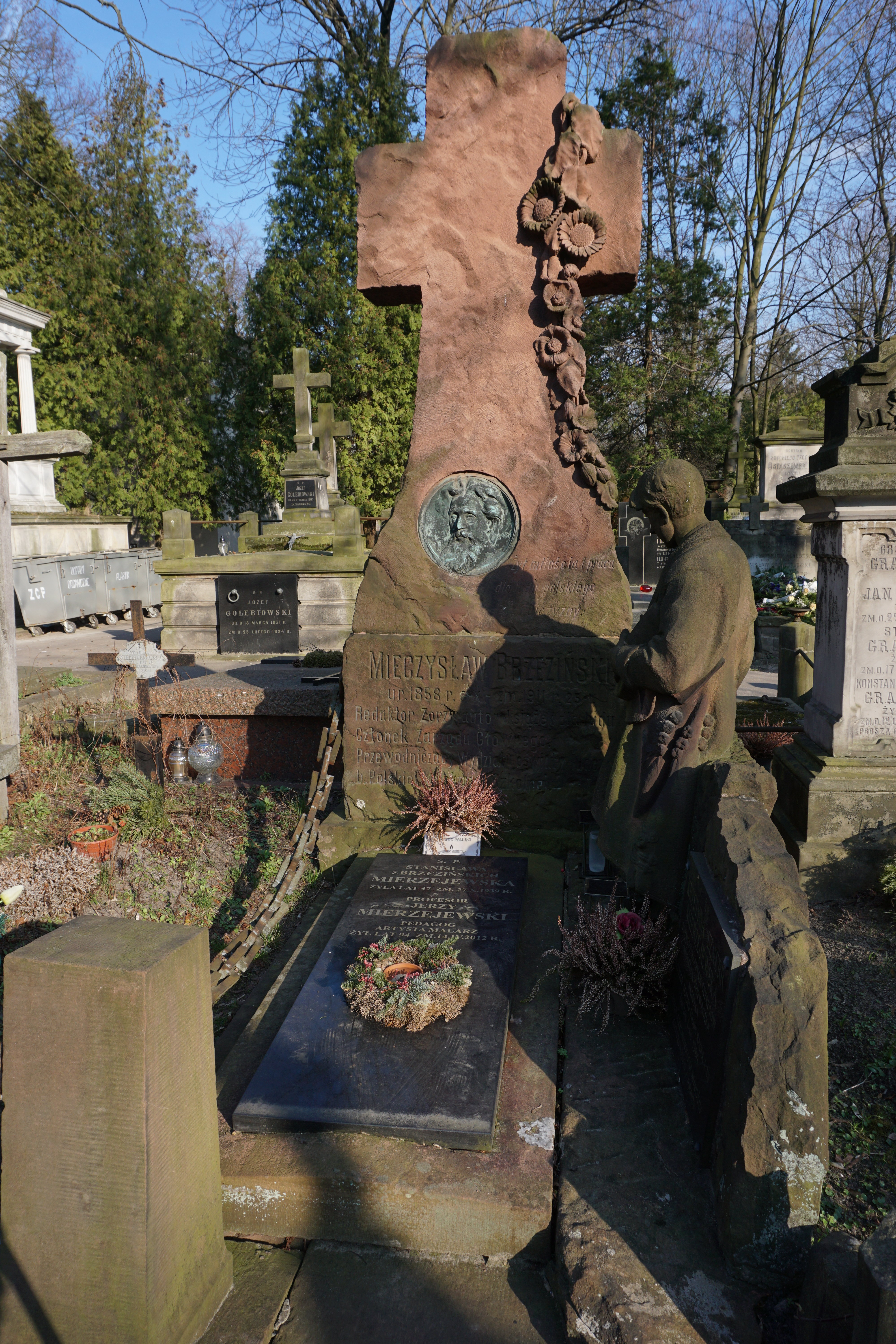 The grave of Jerzy Mierzejewski at the Powązki Cemetery (section 174, row 2, grave 16)